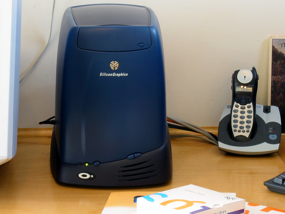 SGI O2 workstation sitting on a desk.